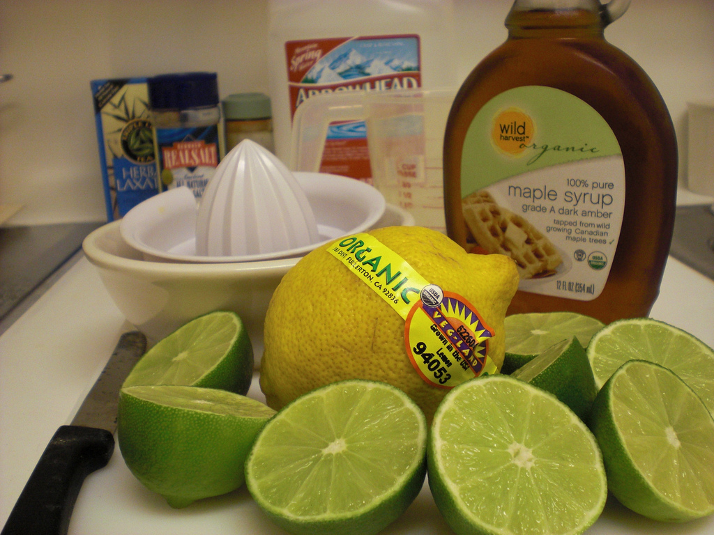 I just love the look of those juicy limes and the composition in this photo turned out pretty well. I'm on day 14th of the cleanse. I'm glad I brought all the necessary equipment with me to Utah so I can continue doing this at the hotel.